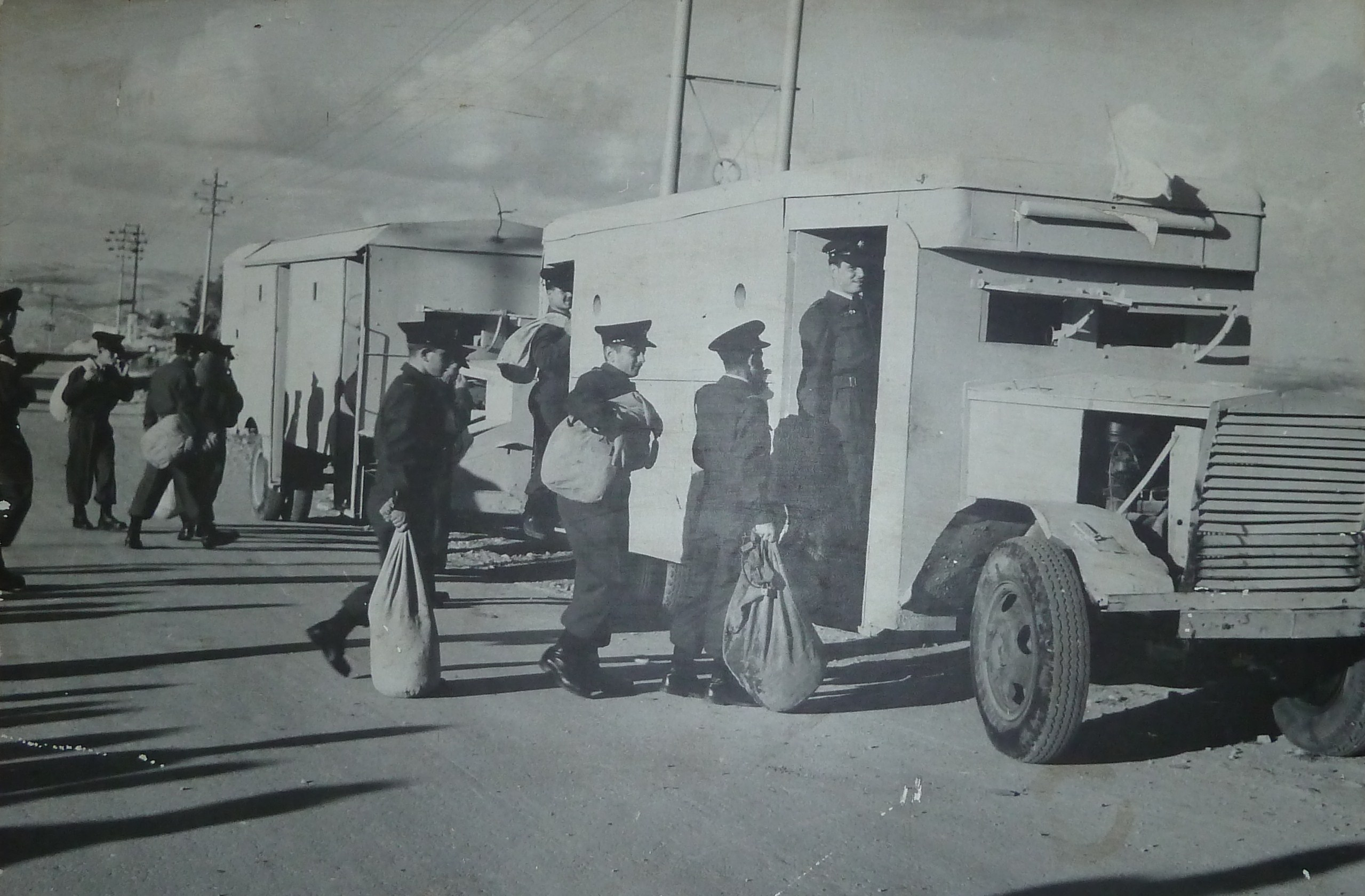 Ammunition Hill Museum Exhibits, Historic Images of Jerusalem